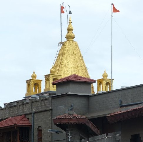 The Kalash Of The Temple